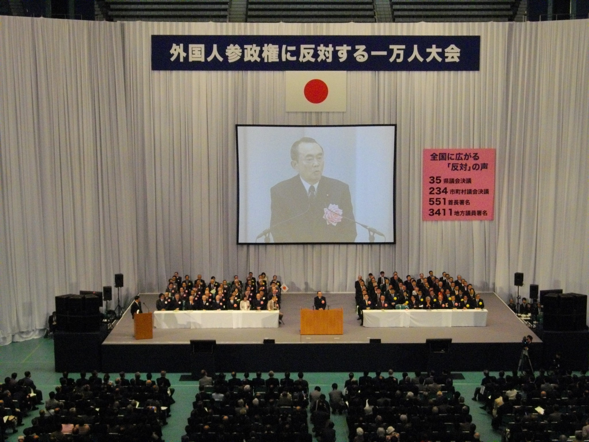 10,000 rally against Voting Right to Foreigners